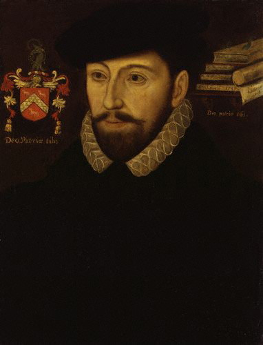 An oil-on-panel portrait of William Lambarde (18 October 1536 – 19 August 1601), an antiquarian and writer on legal subjects.